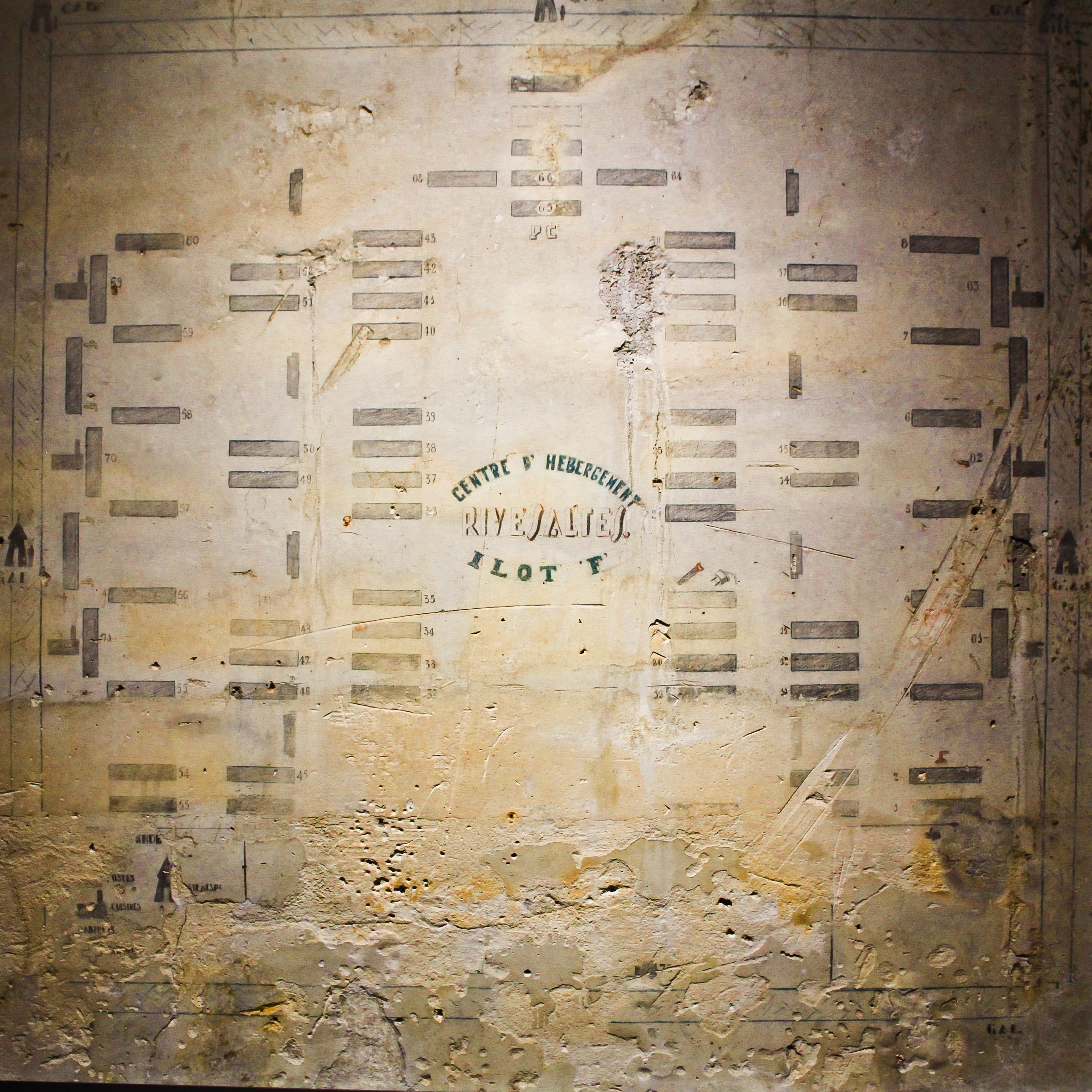 The section F plan of the Rivesaltes camp or Joffre camp, Pyrénées-Orientales, France .